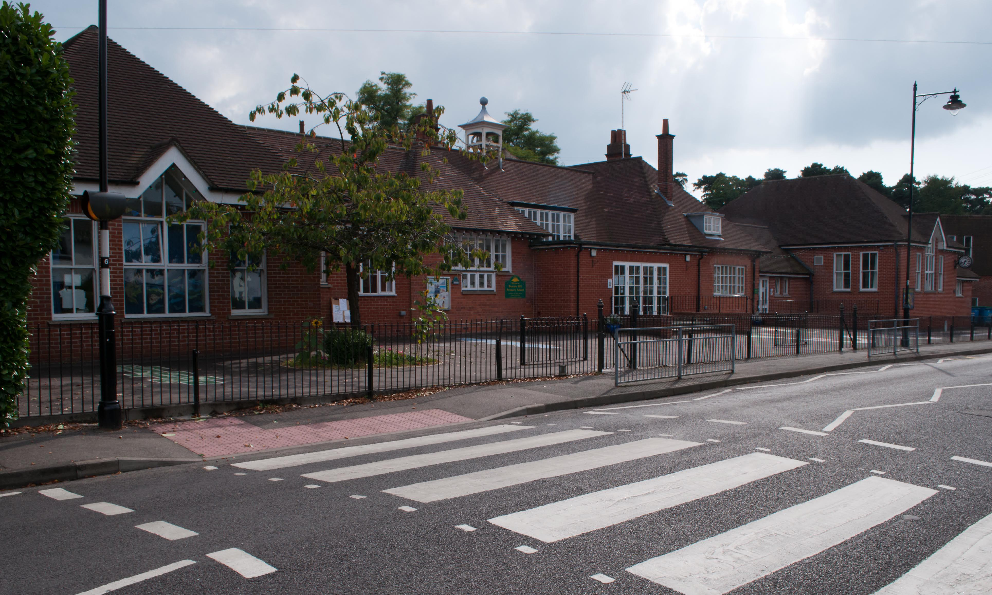 The Primary School,Beacon Hill, Surrey. 2014